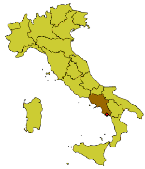 Locator map of Camerota in Italy